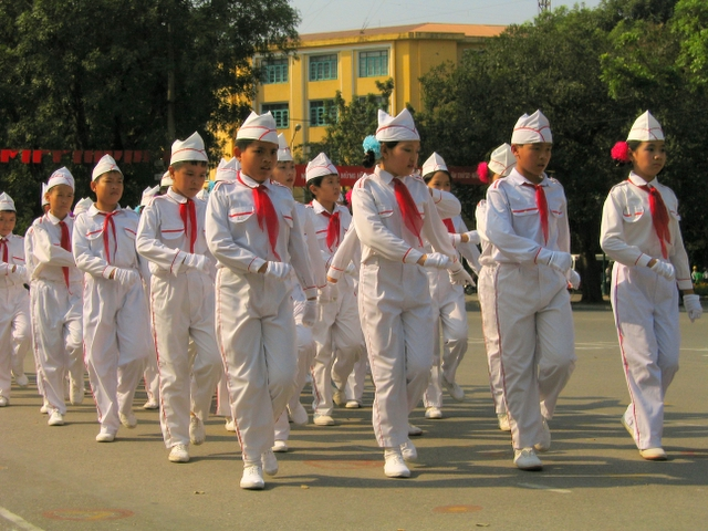 Vietnamese young pioneers at the SEA Games 2003.